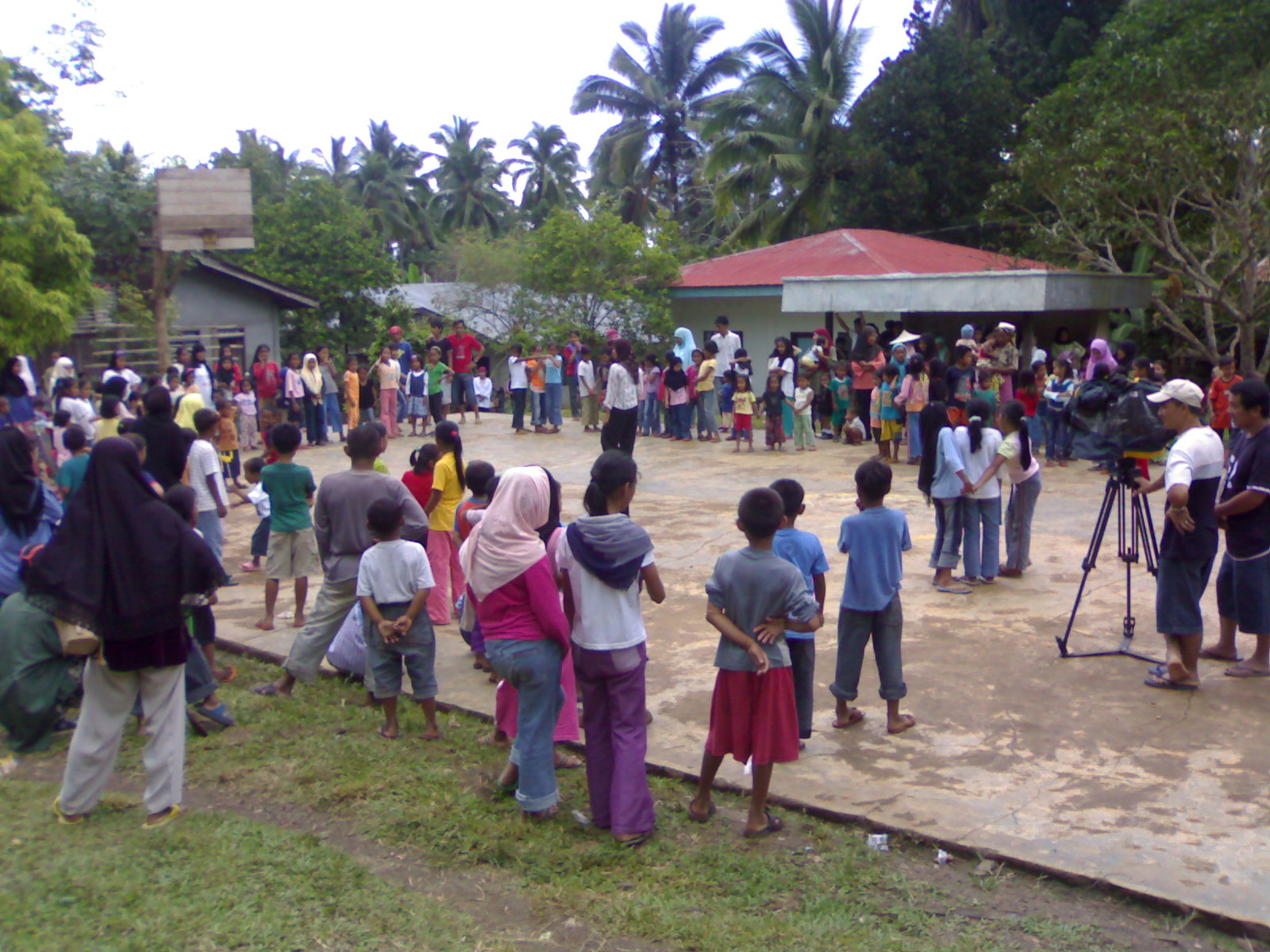 Scene at Materling, Ungkaya Pukan, Basilan, ABSCBN Kapamilya Outreach with Bernadette Sembrano